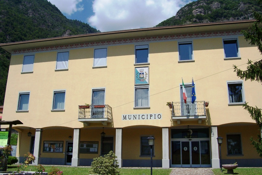 Townhall. Rogno, Val Camonica